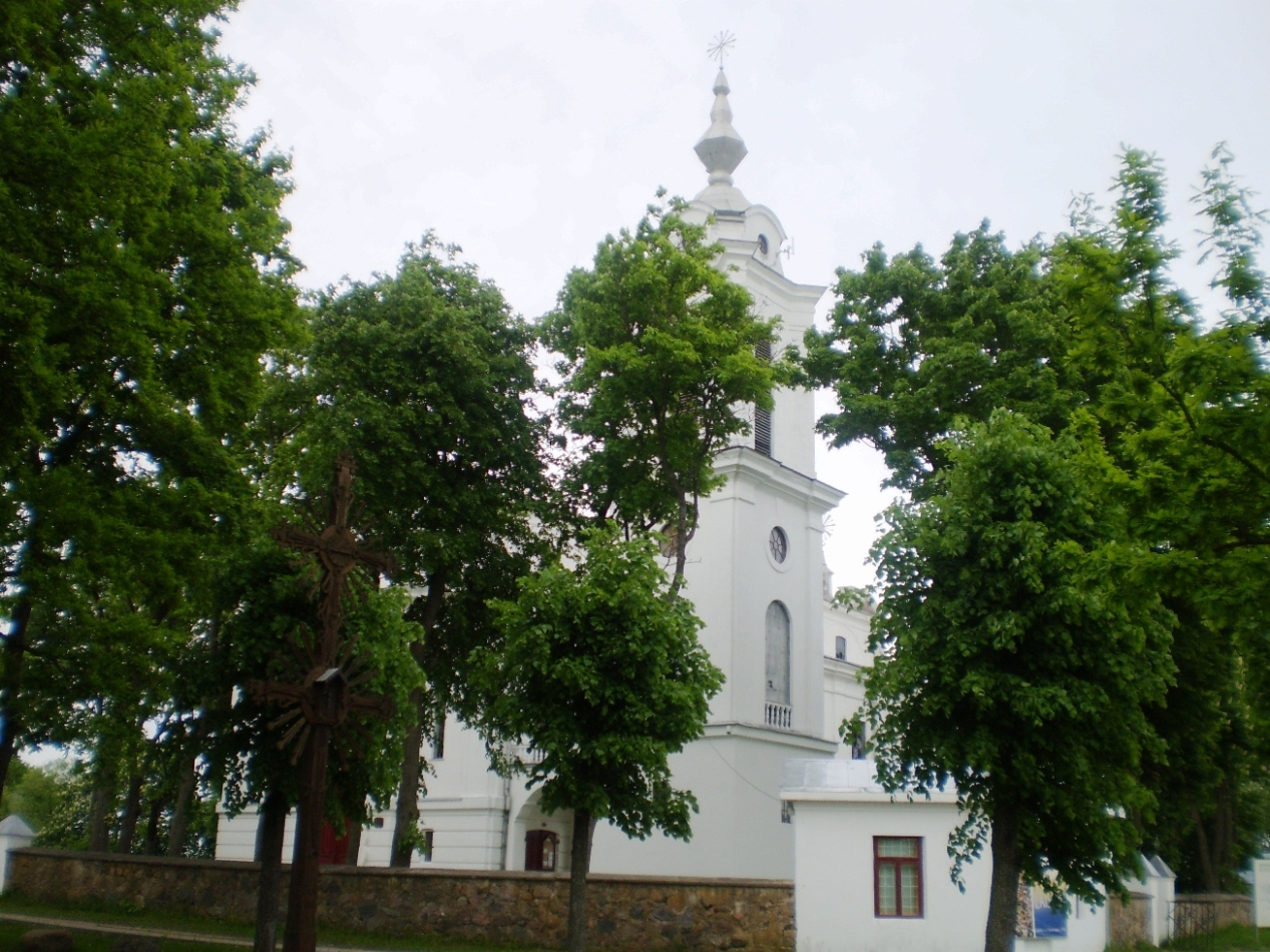 Church of Betygala. County of Kaunas, Lithuania